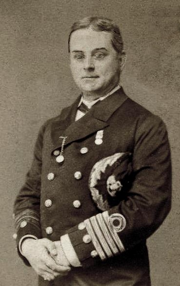 Pelham Aldrich's portrait